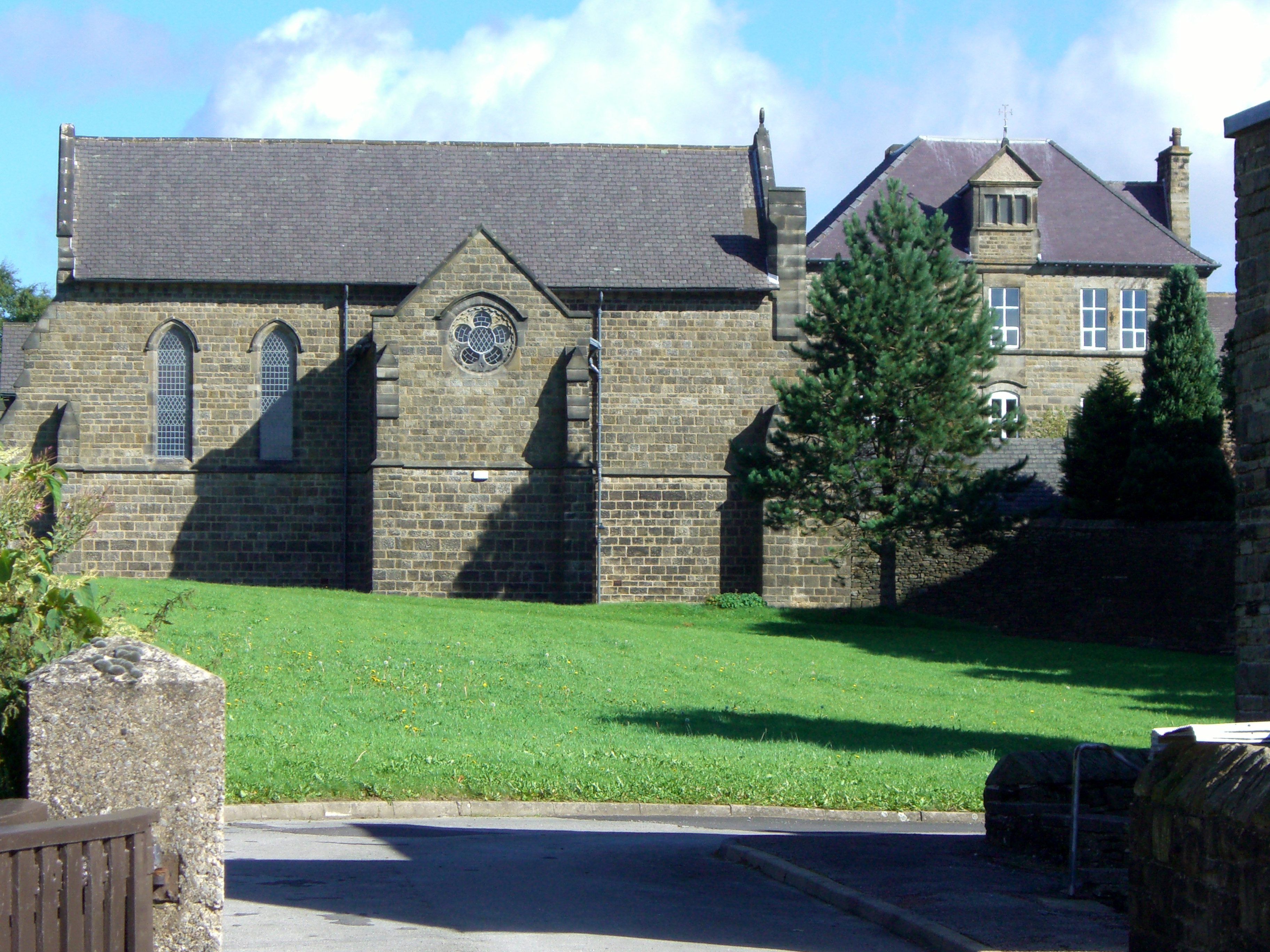 Chapel of the Carmelite Convent of the Holy Spirit, Kirk Edge, between High Bradfield and Worral, Sheffield, South Yorkshire